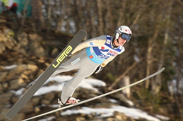 Anders Fannemel in the FIS Ski-Flying World Championships 2012